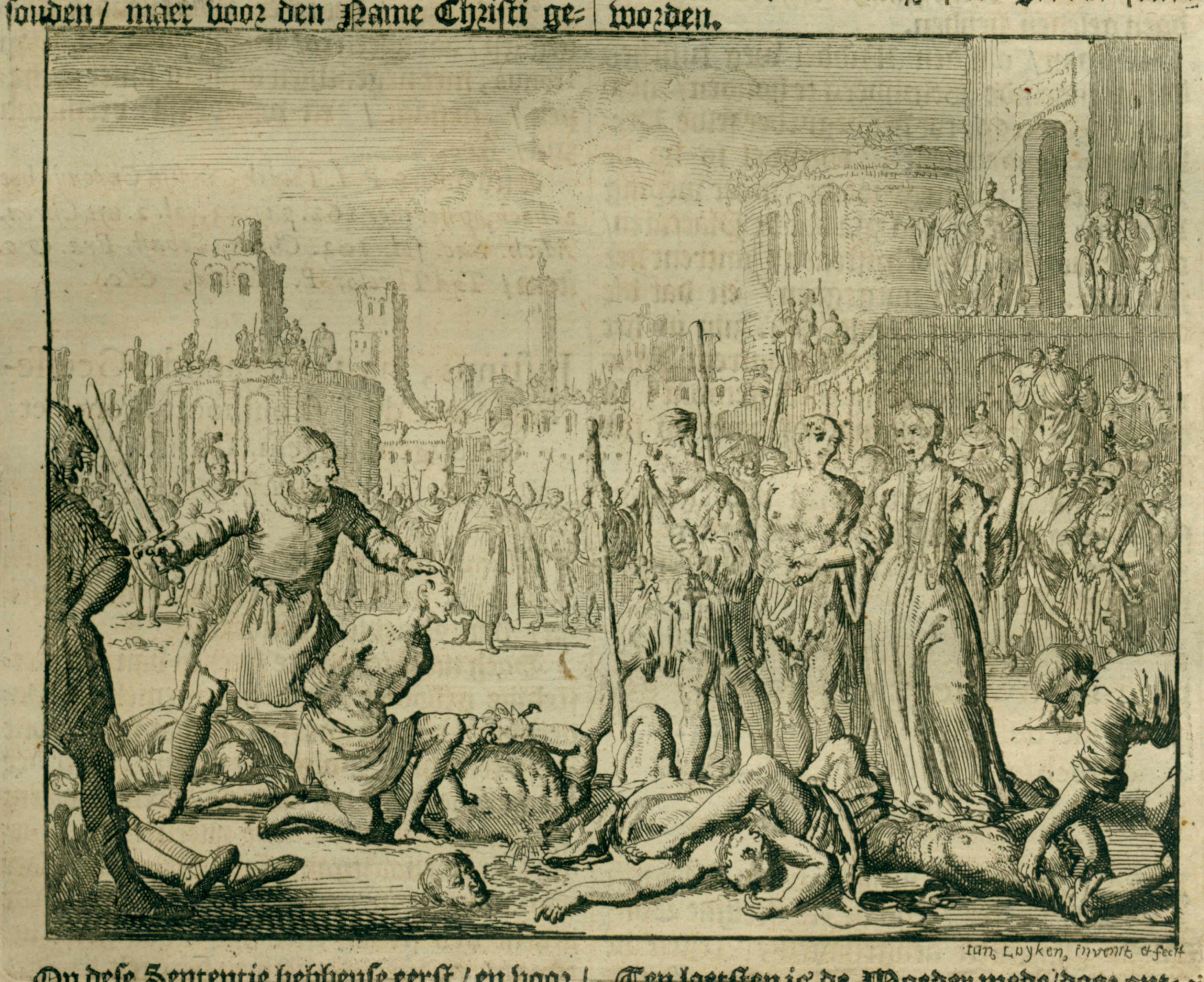 "Felicitas killed with her 7 sons, Rome, AD 104." From the Martyrs Mirror, this is an etching by Jan Luyken (1649-1712).